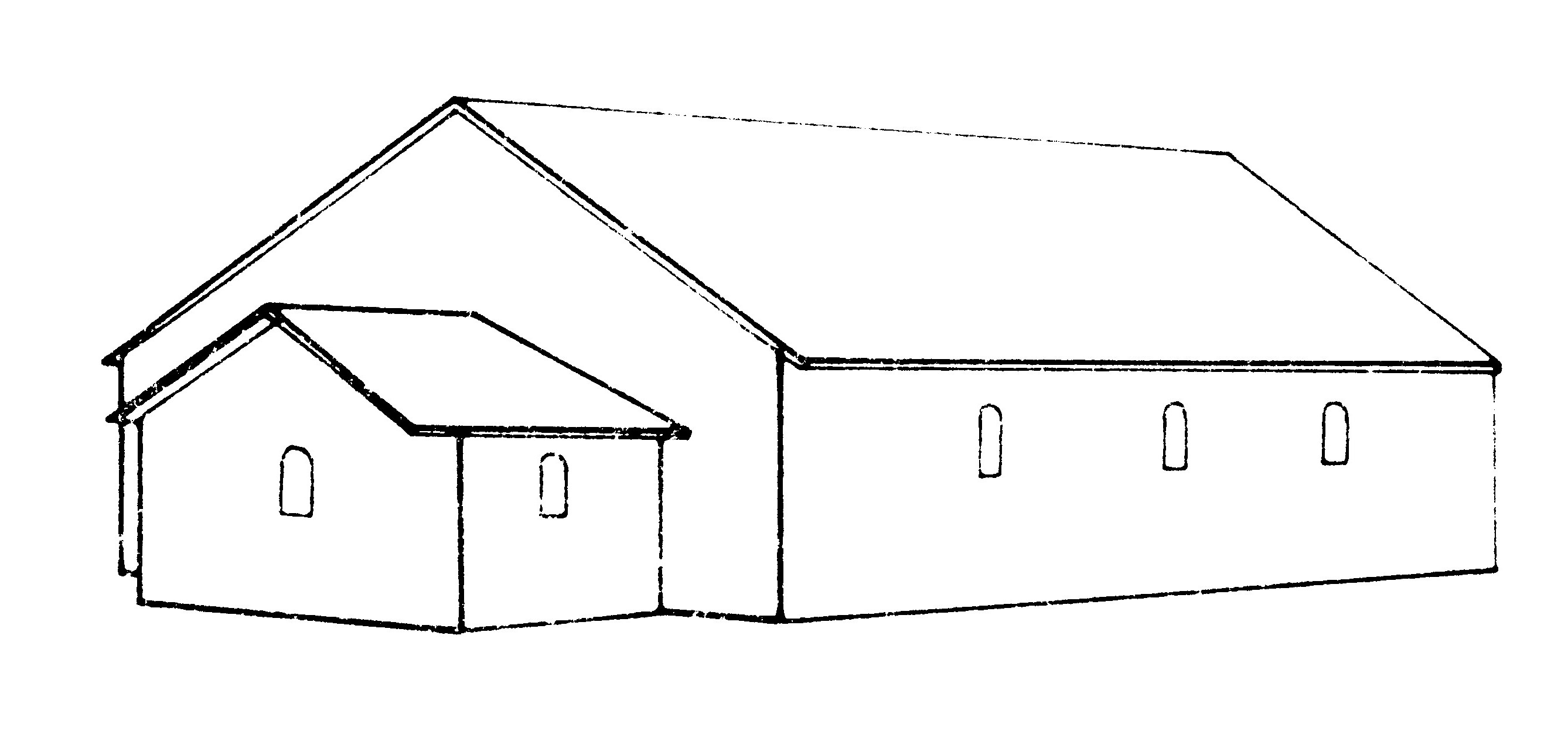 First stage of construction of the (now) Reformed Church in Betschwanden, Glarus, Switzerland, from around 1300.